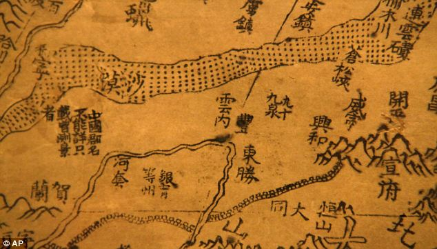 Impossible_Black_Tulip-_World_map, detail_from_the_China_section